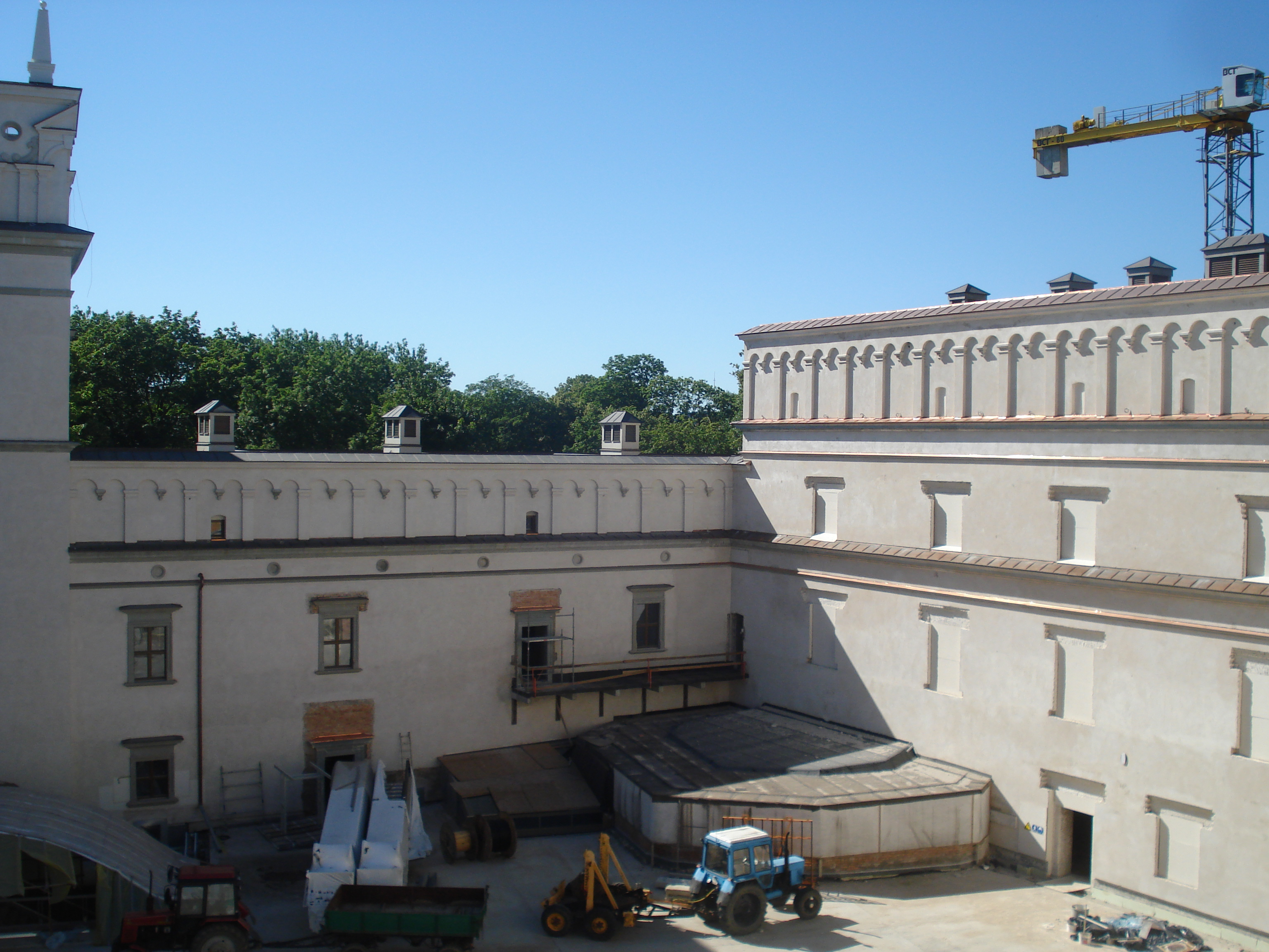 Royal Palace of Lithuania, Vilnius